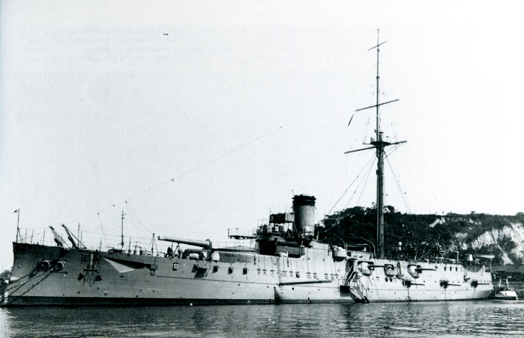 Picture of Japanese cruiser Hashidate at Yokosuka, 1916